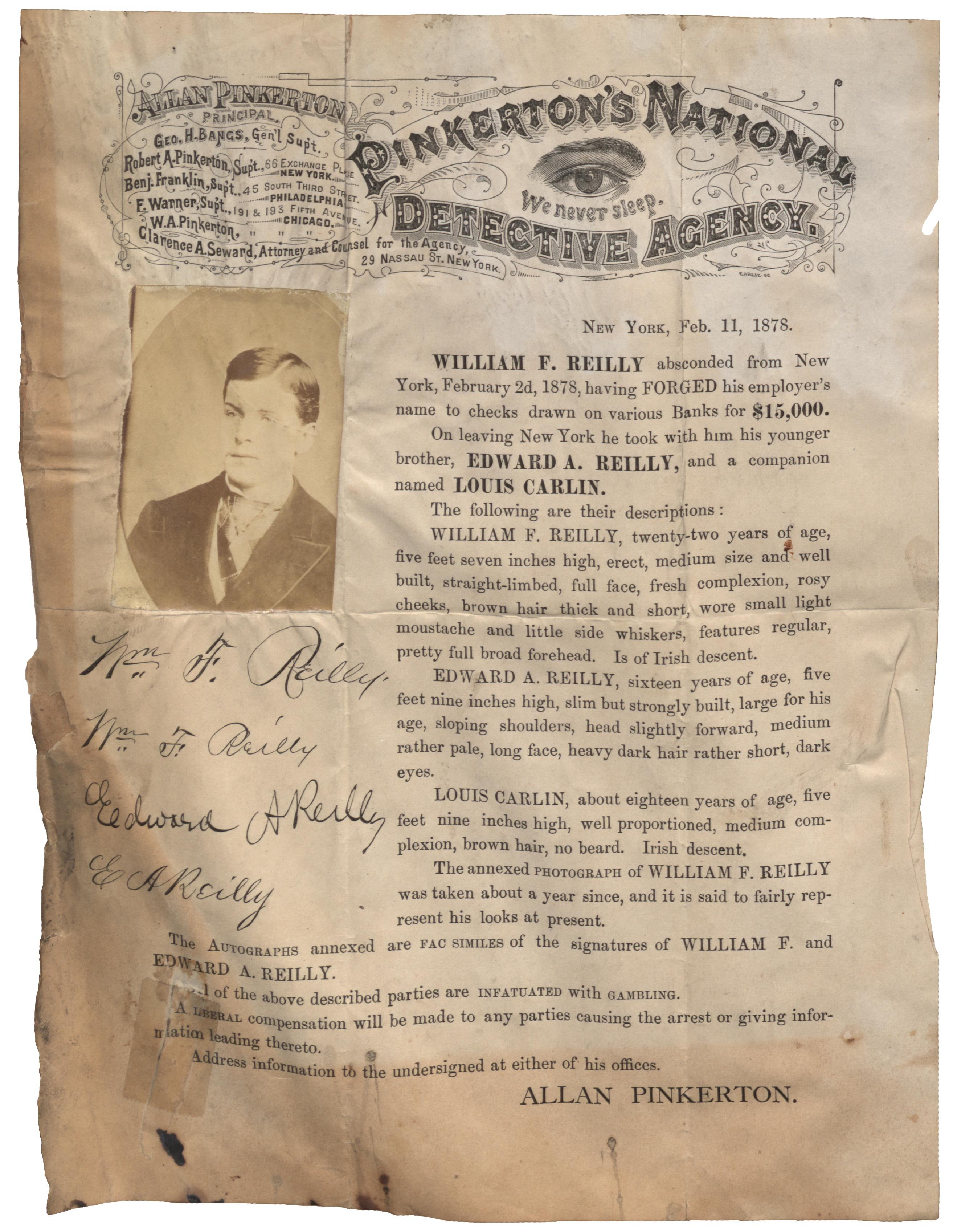 William F. Reilly absconded from New York, February 2nd, 1878, having FORGED his employer's name to checks drawn on various banks for $15,000. On leaving New York he took with him his younger brother, Edward A. Reilly, and a companion named Louis Carlin.